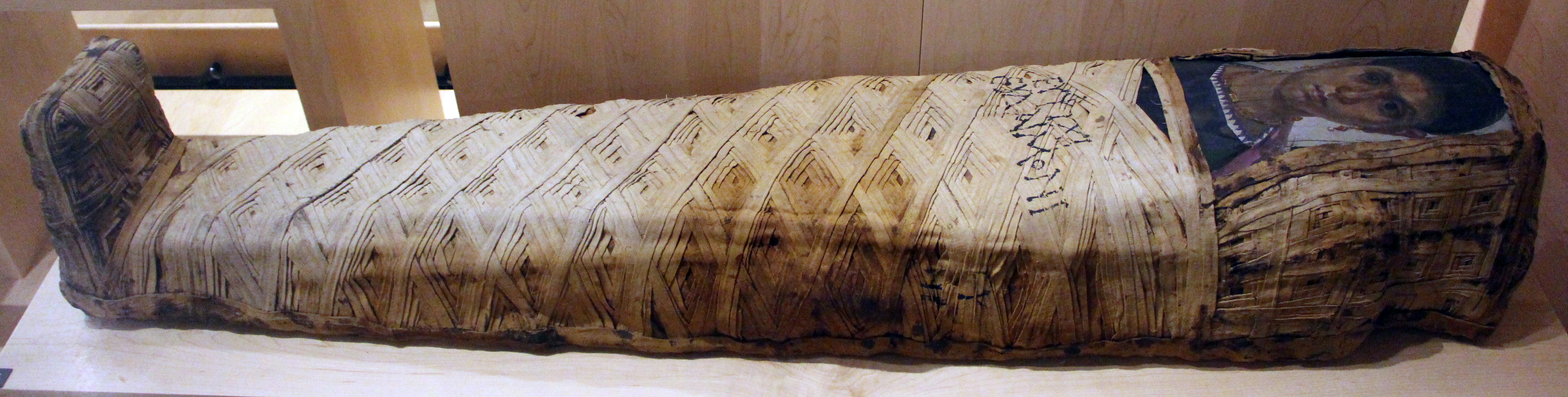 East Mediterranean in the Roman Empire antiquities in the Louvre